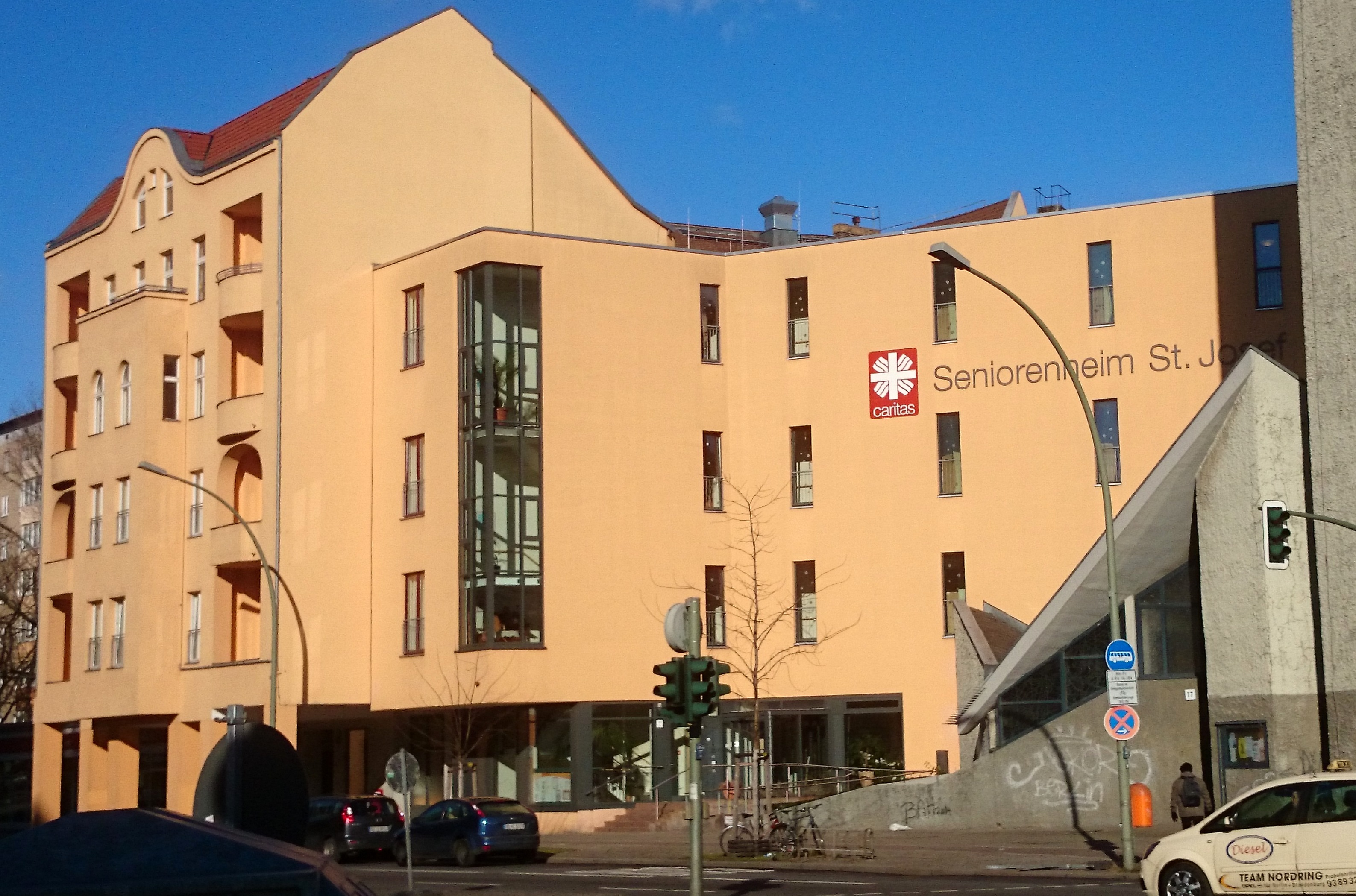 Berlin in spring